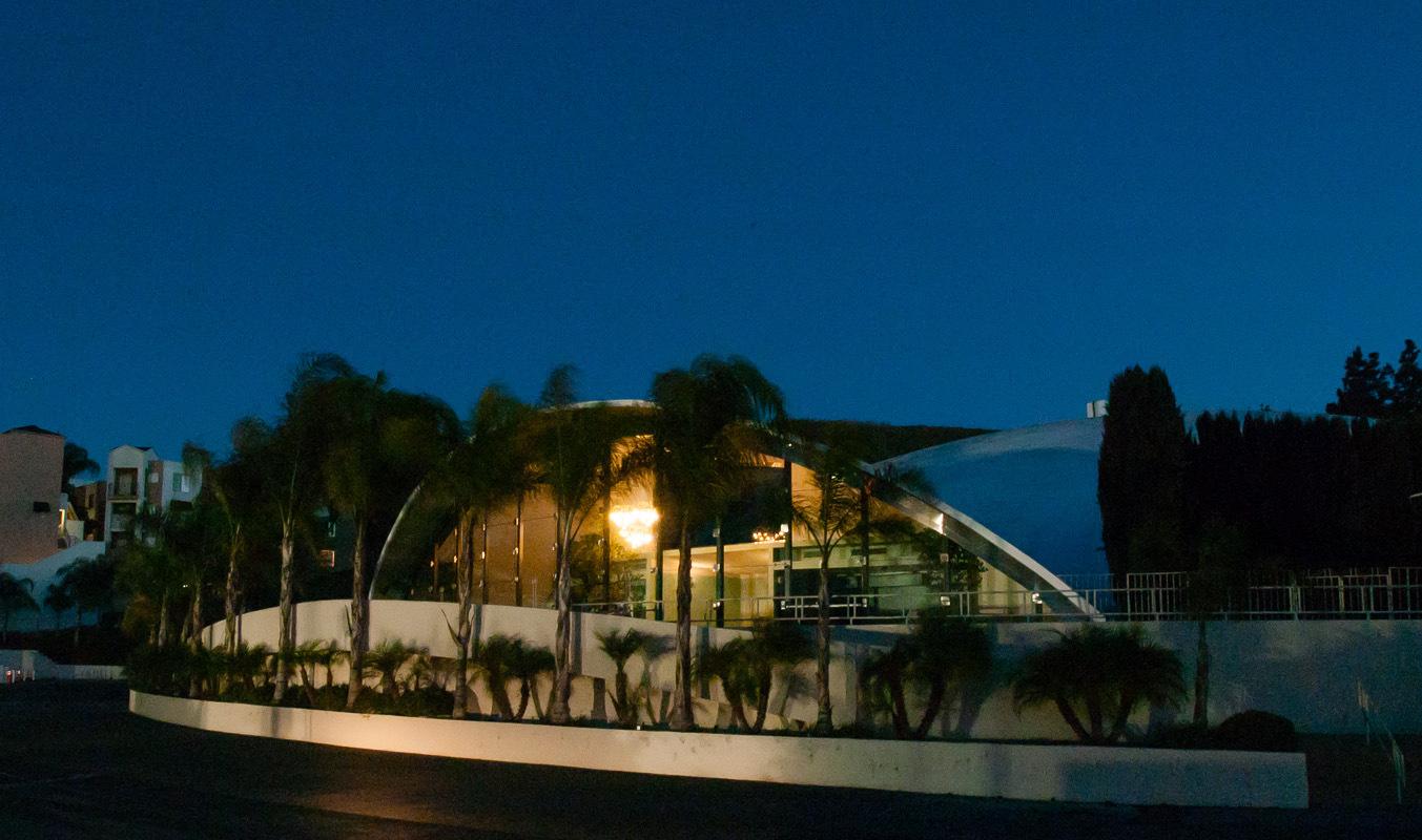 The Valley Music Theater — formerly on Ventura Boulevard and Chalk Hill, in Woodland Hills, western San Fernando Valley, Los Angeles, California, • Photographed when it was an Assembly Hall of Jehovah's Witnesses. • Demolished